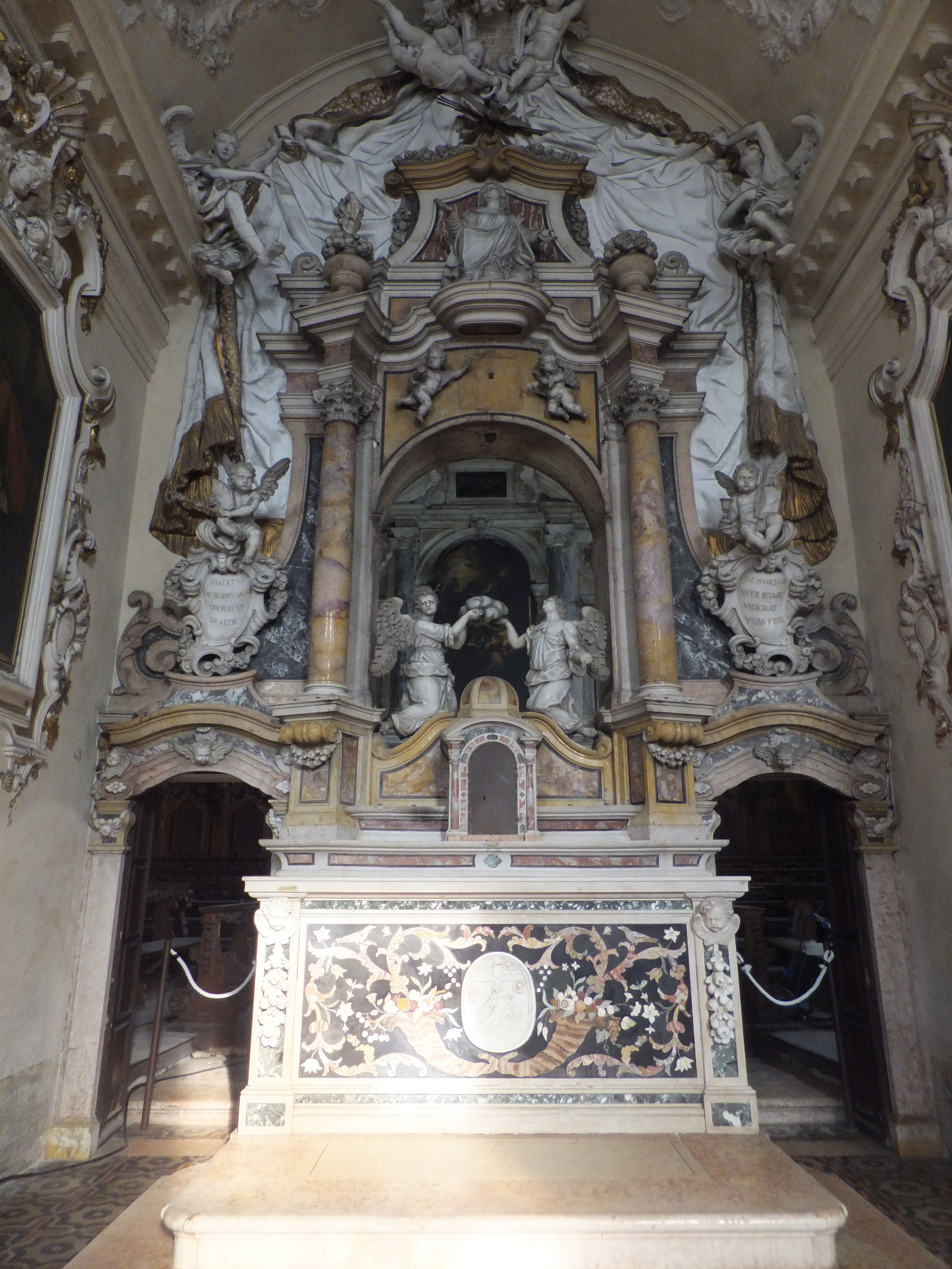 Verona, church of Saints Siro and Libera - Altar